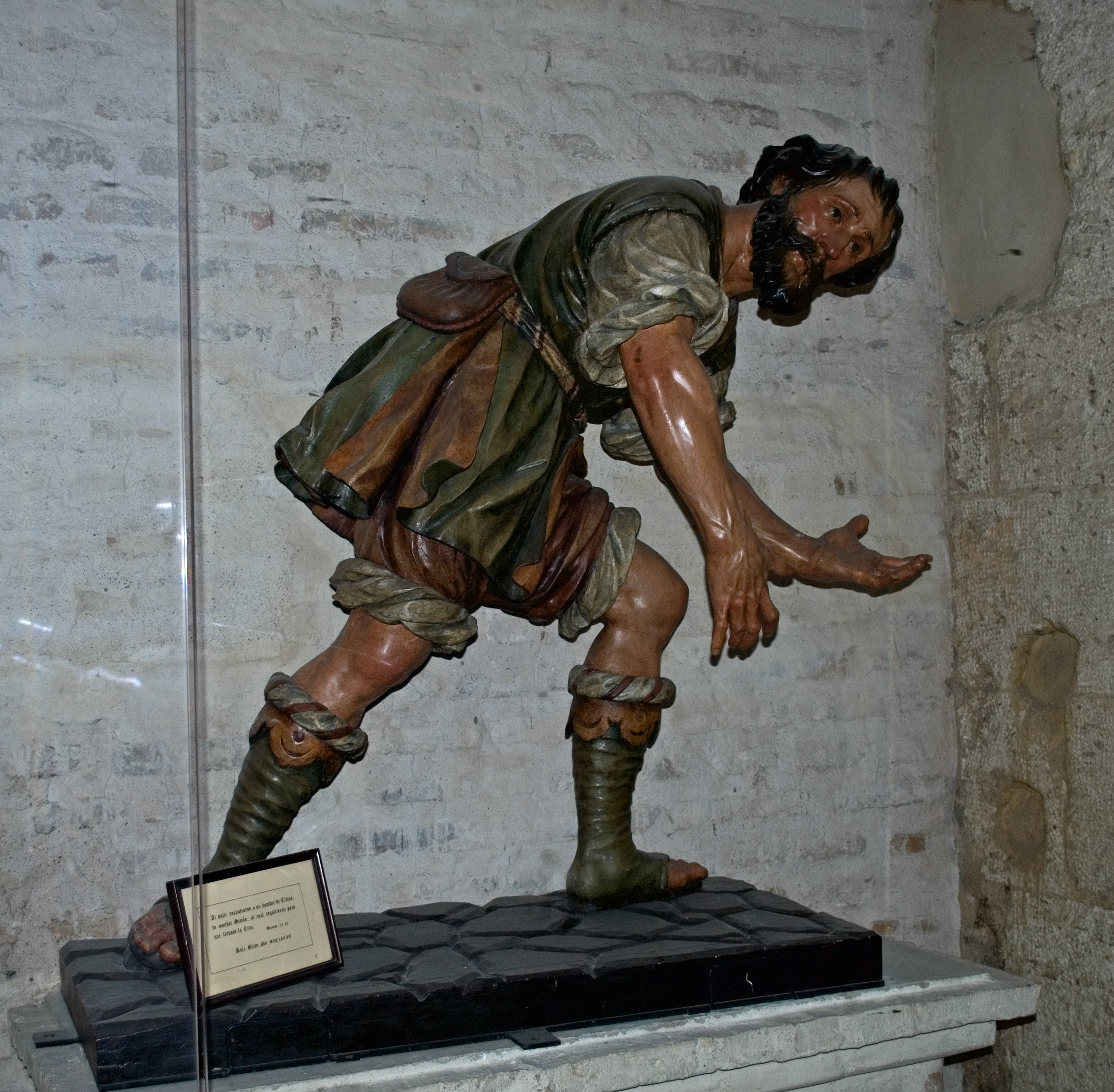 Sculpture of Simon of Cyrene